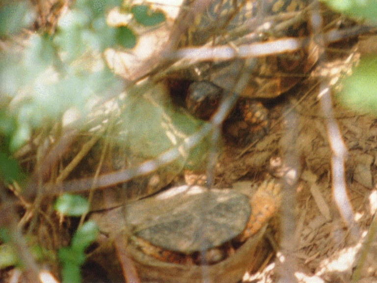 posted by the photographer, Kenneth E. Leonard